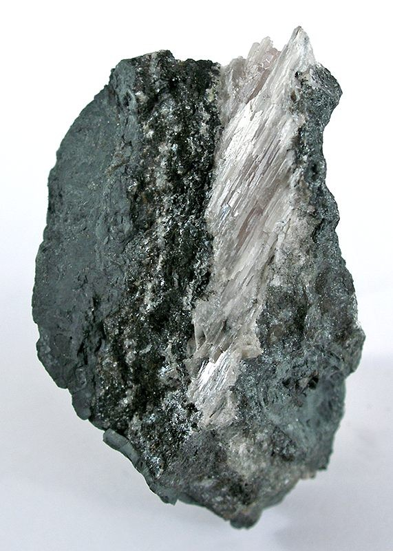 Mendipite Locality: Mendip Hills, Somerset, England, UK (Locality at ) Size: 4.3 x 2.5 x 2.0 cm. A superb, rich specimen of mendipite in a seam of ore, from this important classic locale. Very rare material, and generally considered to be the finest of species.